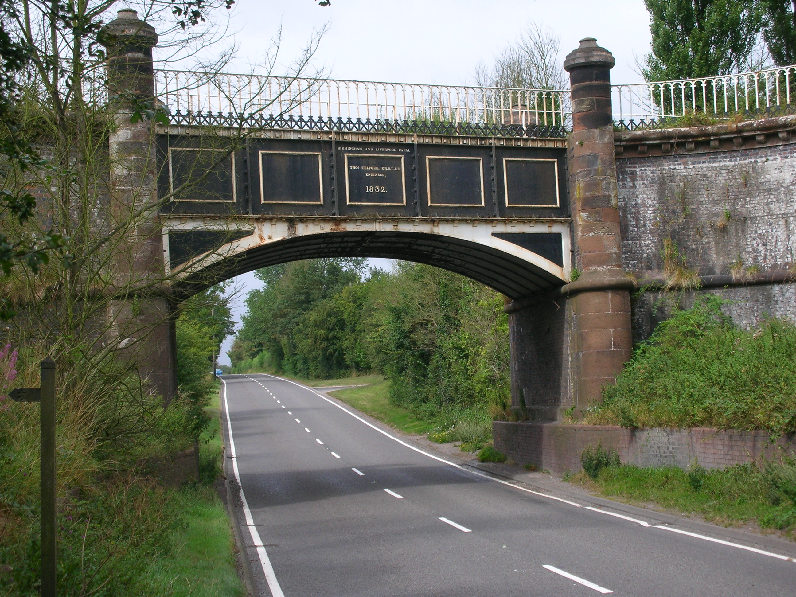 Stretton Aqueduct carrying the Shropshire Union Canal over the A5 road north of Brewood in England. Built by Telford in 1832. It is Grade II listed (Images of England number 271397). Photographed by me, 10 August 2006. Oosoom